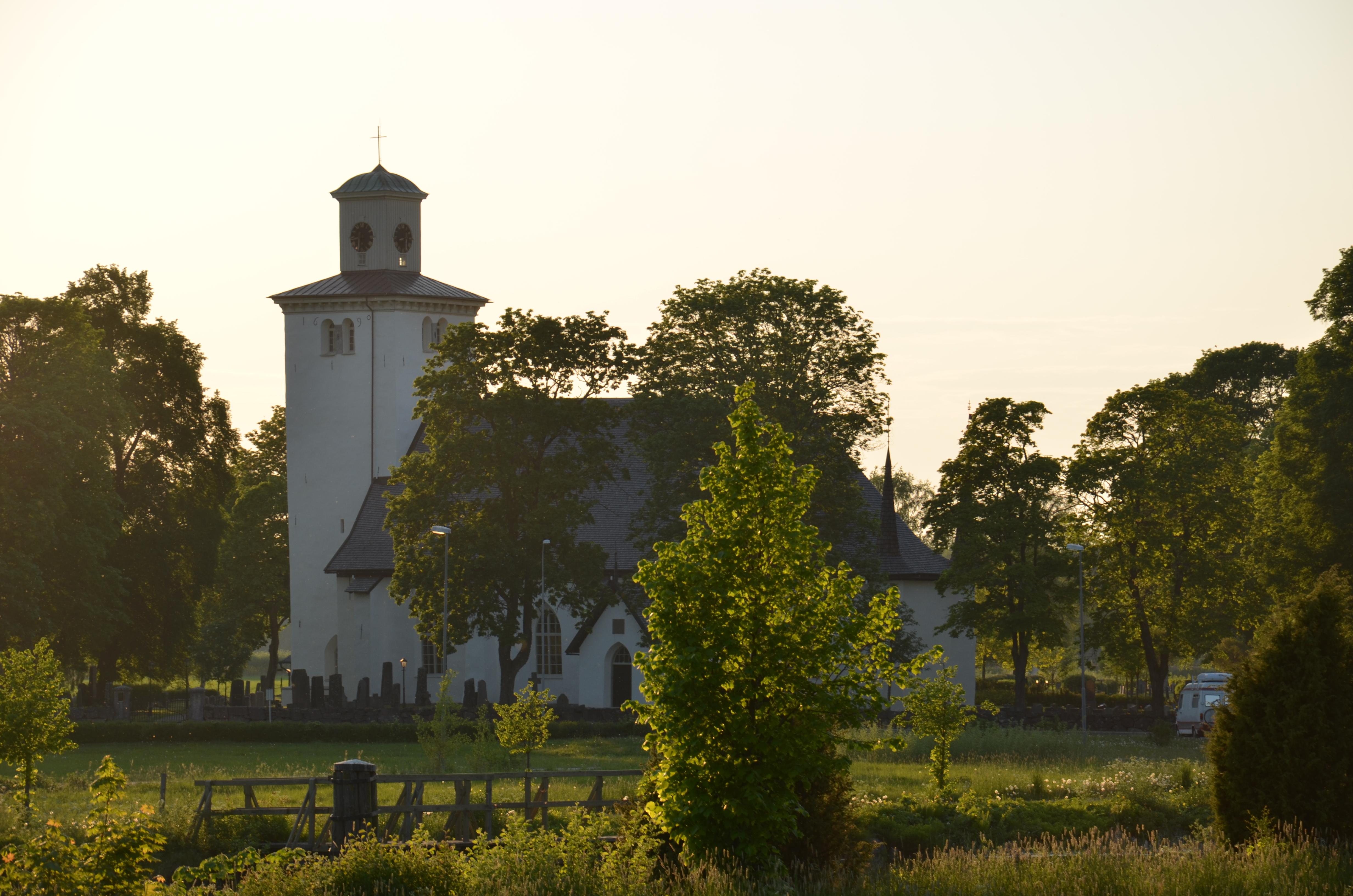 Lyrestad church